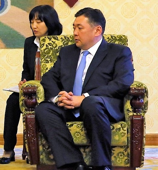 Cropped photograph of Miyeegombyn Enkhbold, Chairman of the State Great Hural of Mongolia, meeting with Russian Prime Minister Dmitry Medvedev (cropped out) in July 2016